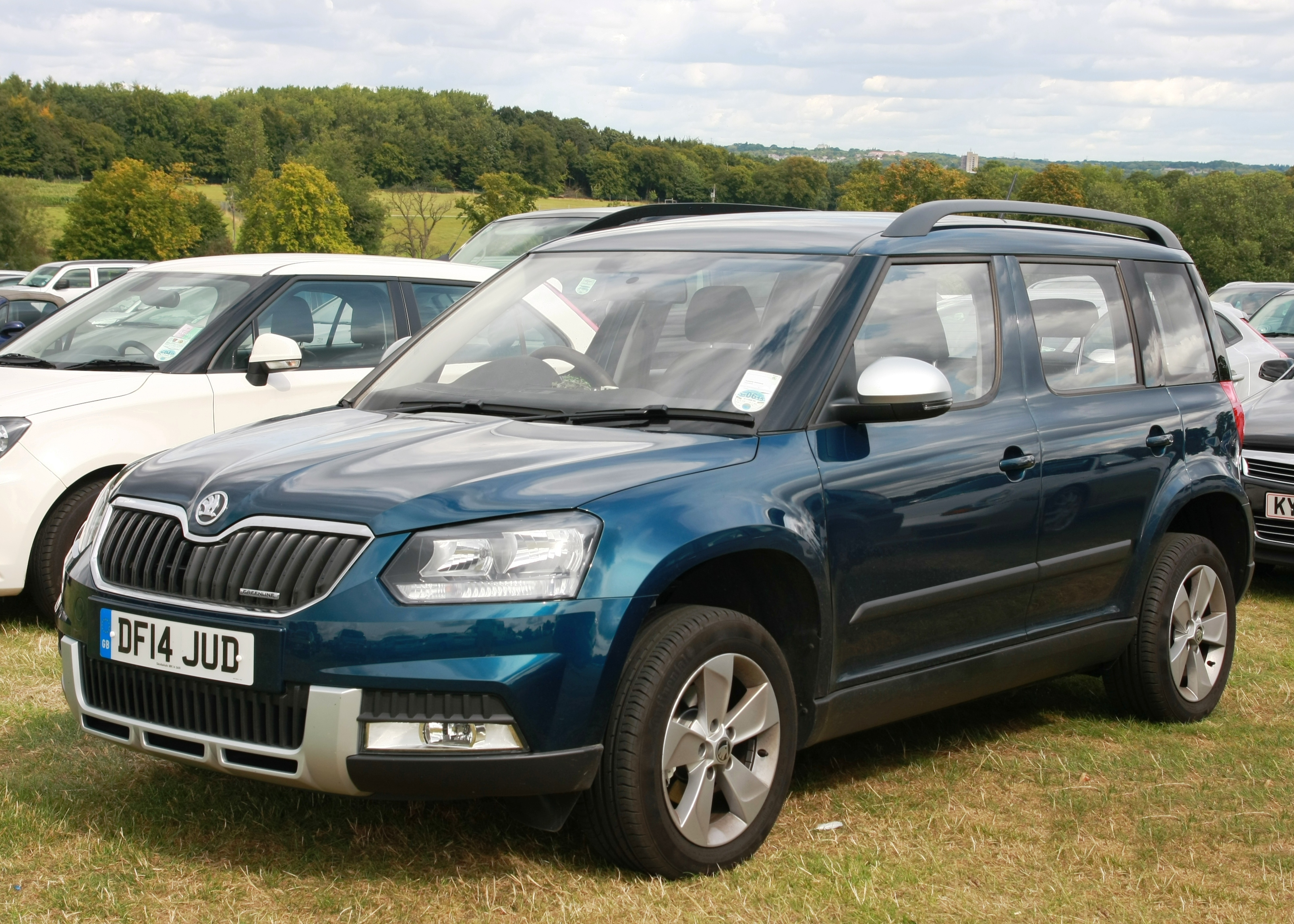 Škoda Yeti diesel Greenline ( 2014- ie post 2013 facelift) at Knebworth